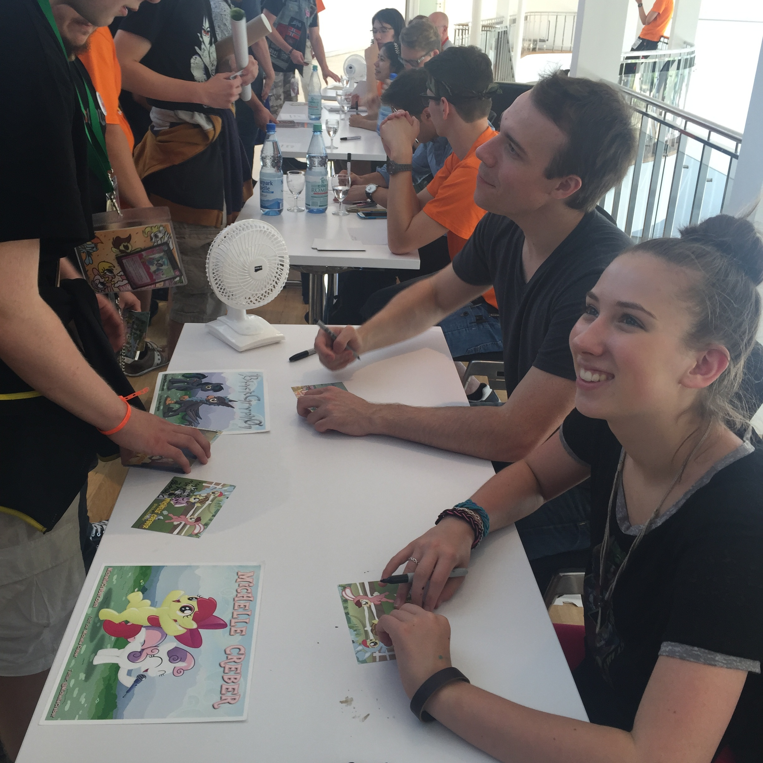 Michelle Creber and Black Gryph0n signing autographs at Galacon 2015 in Germany